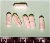 PMA (para-methoxyamphetamine) capsules seized in Maryland, USA